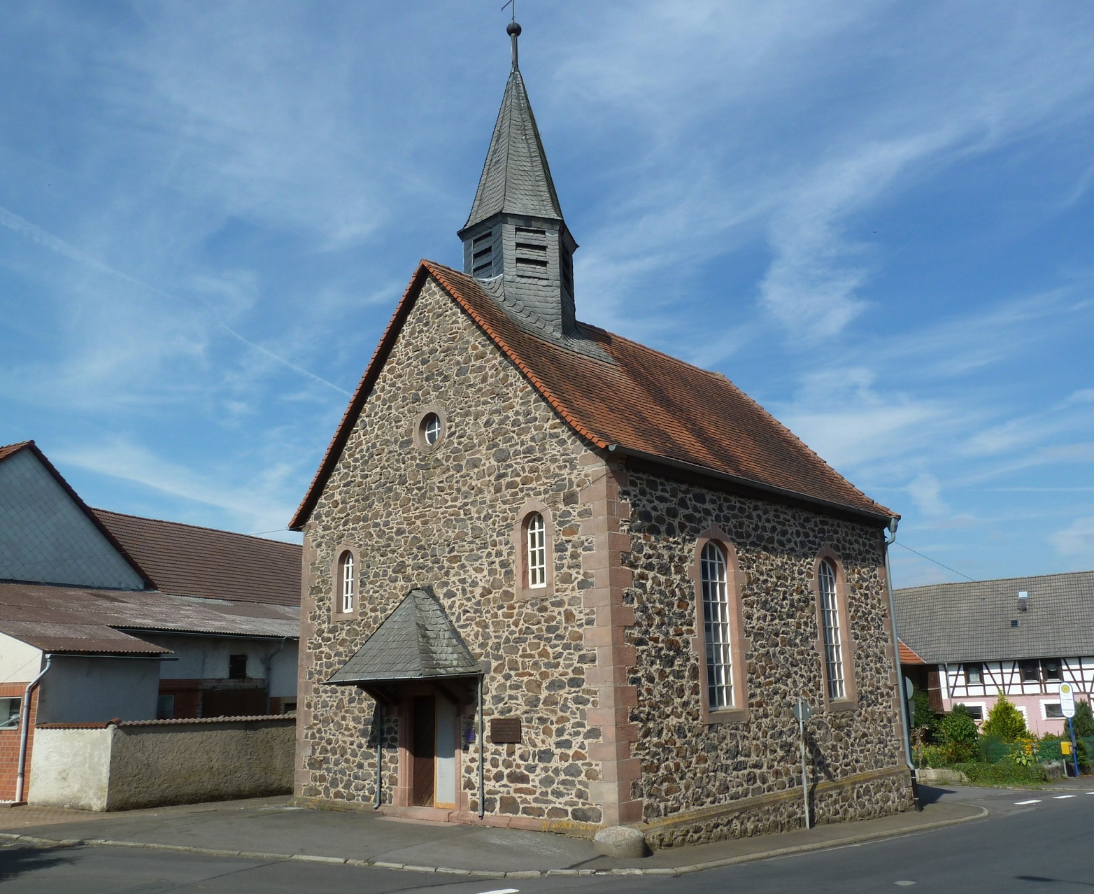 Protestant church in Ober-Moos, a district of the community of Freiensteinau in Hesse, Germany.